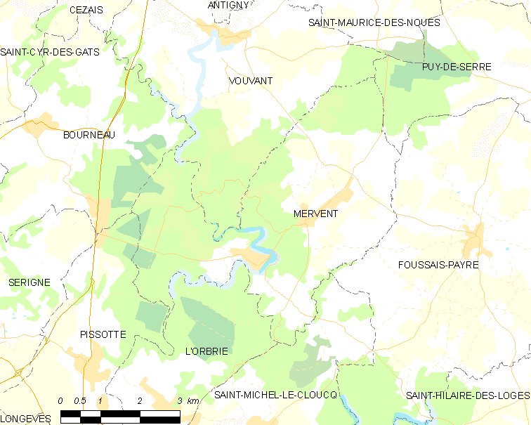 Map of French municipality Mervent